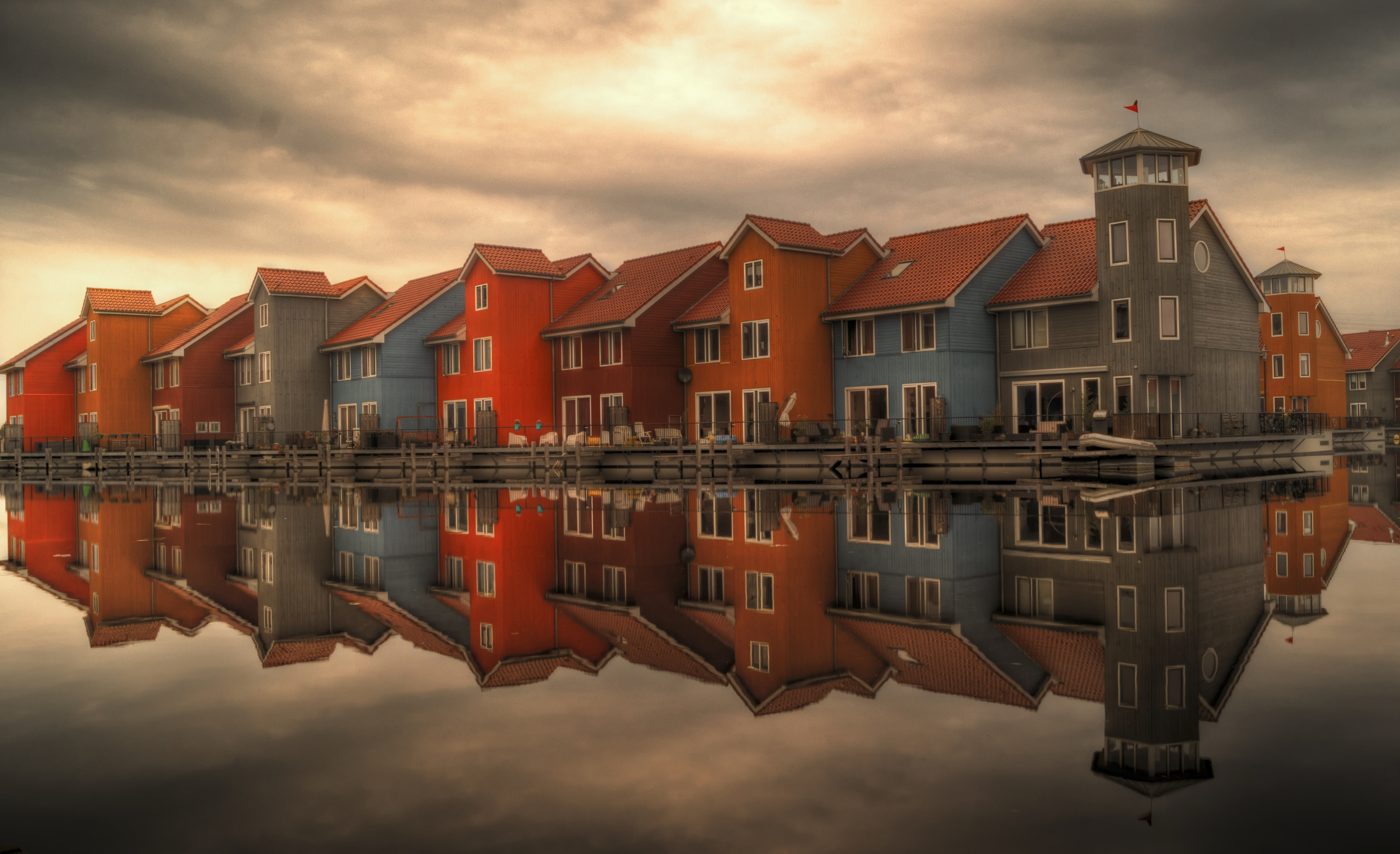 Beautiful Colourful houses in The Netherlands